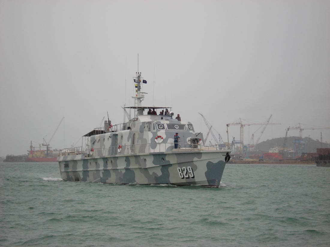 KRI Tarihu of the Indonesian Navy